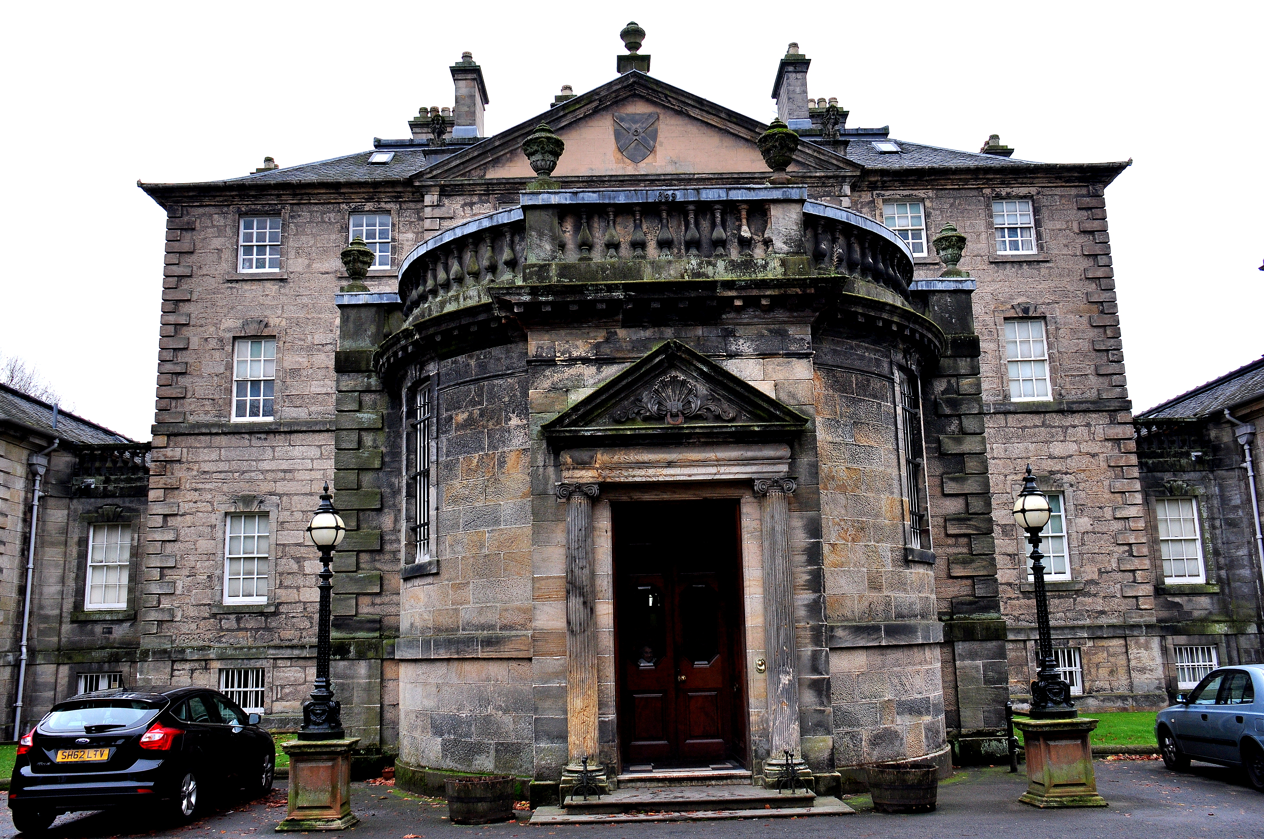 This wonderful building lies at the Pollok County Park, Glasgow, Scotland, UK.